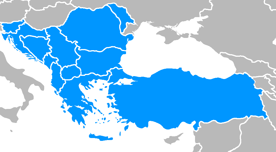 Members of the South-East European Cooperation Process